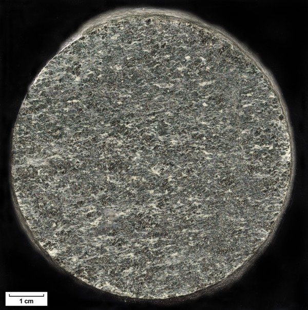 Foliated amphibolite, sample 81MW0005, a borehole sample from under Cape Cod in Massachusetts in USA. It is made of the minerals plagioclase (35%), hornblende (20%), biotite (20%), epidote (15%), quartz (9%), and trace oxides and sphene. Plagioclase is mostly fine grained and subhedral and occurs in the matrix. Fine-grained hornblende occurs as anhedral pleochroic green-tan crystals. Biotite is partly, but not entirely aligned in the foliation, suggesting that deformation took place before a secondary growth of biotite. Epidote is anhedral, and sometimes rimmed by biotite. Quartz occurs in 2 mm-thick aggregates and shows subgrain development.